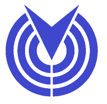 Minamiizu Shizuoka chapter